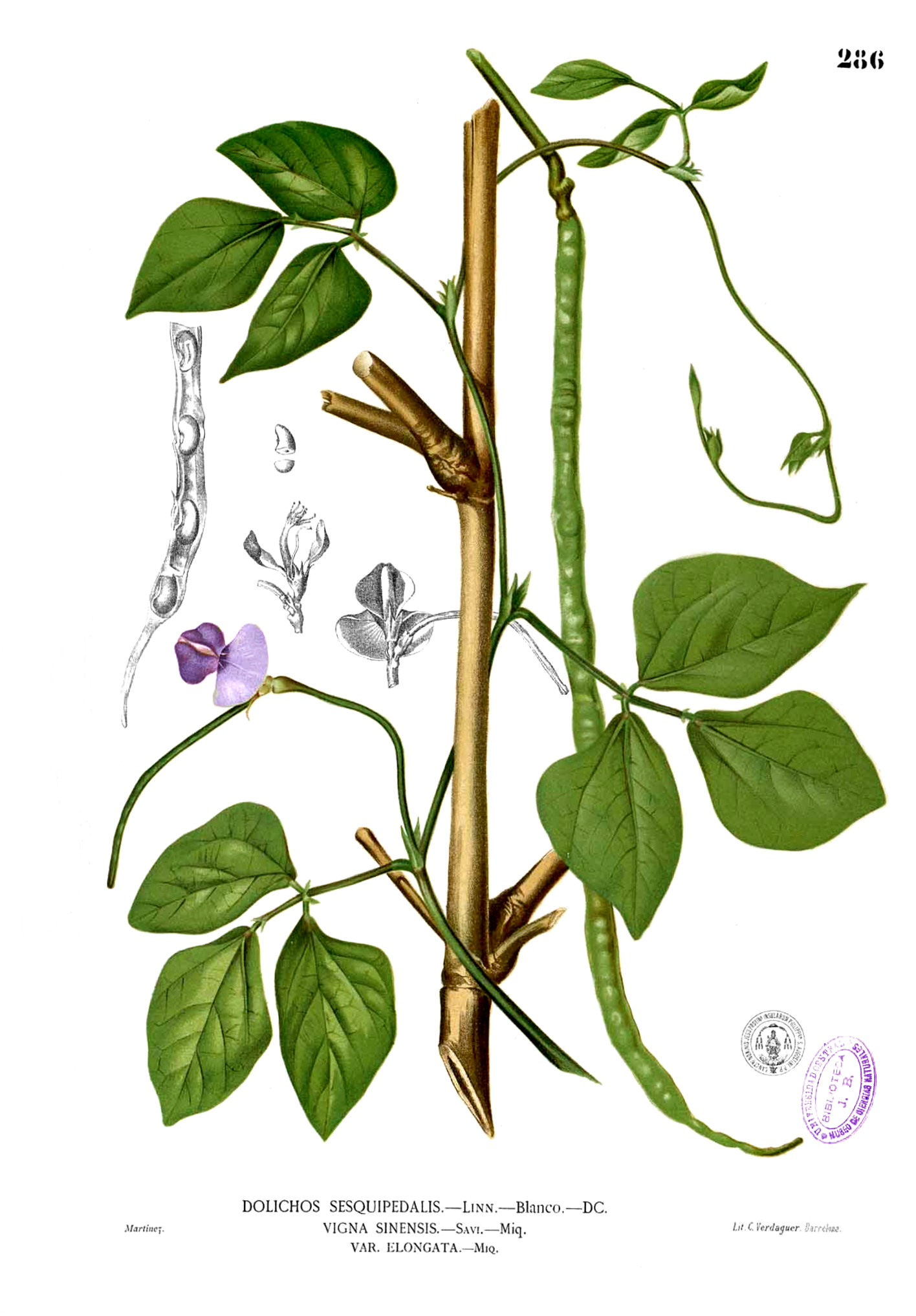 Plate from book